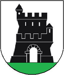 Coat of arms of Bourrignon, Canton of Jura, Switzerland (Source: Symbol on the wall of the municipal administration)